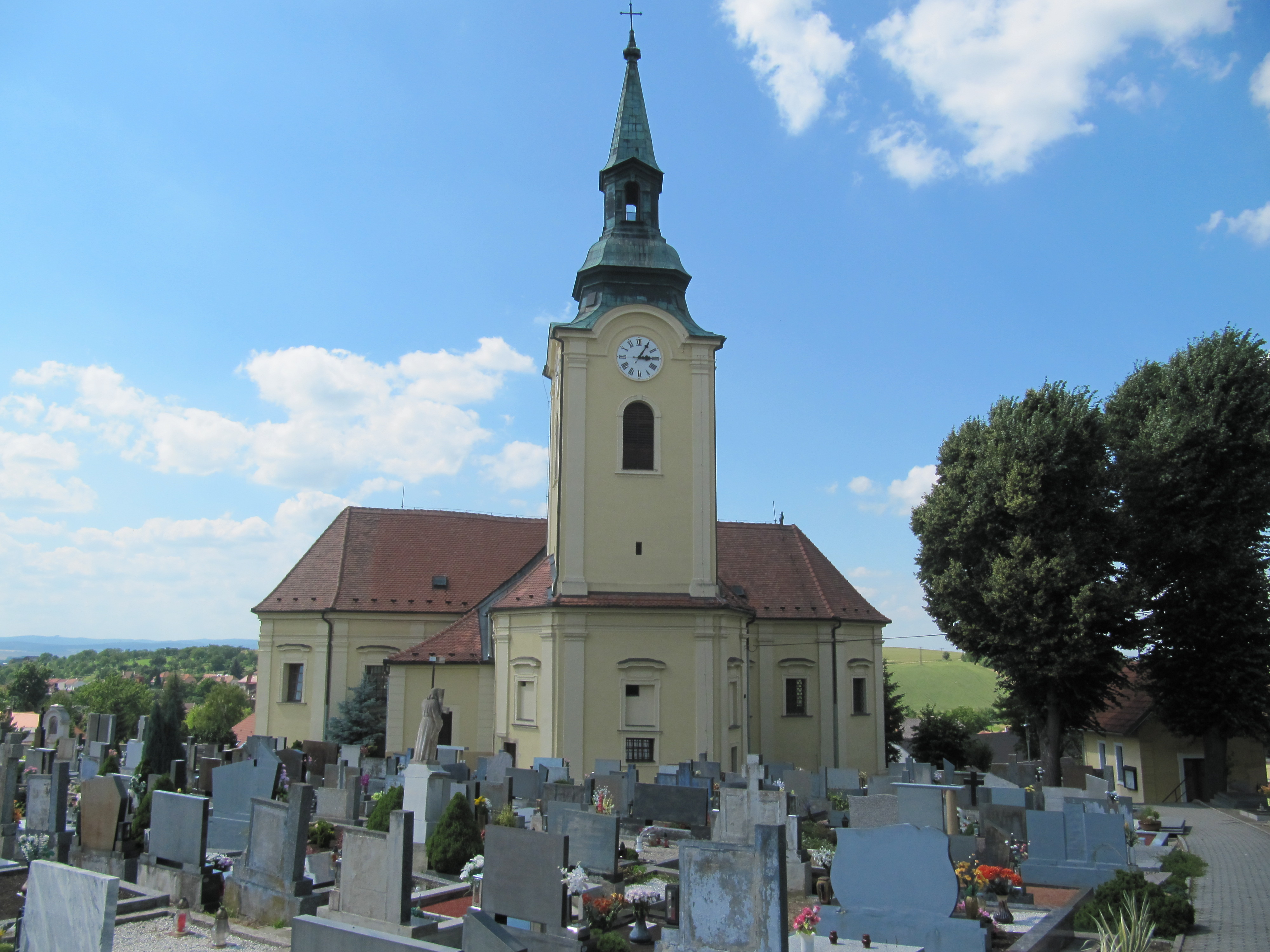 Bílovice, Uherské Hradiště District, Czech Republic. Church of Saint John the Baptist.